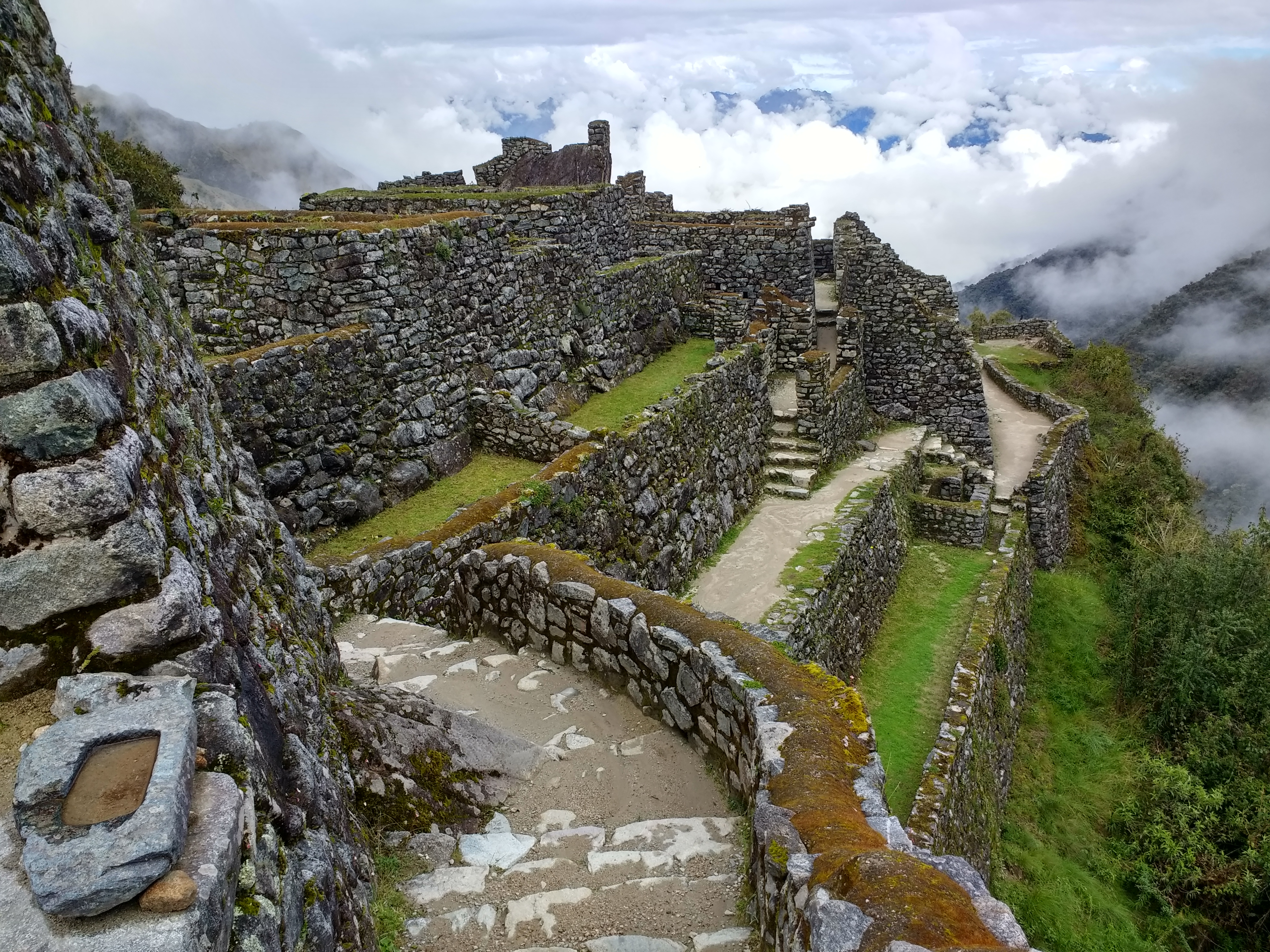 Sayacmarka, ruins on the Inca Trail.